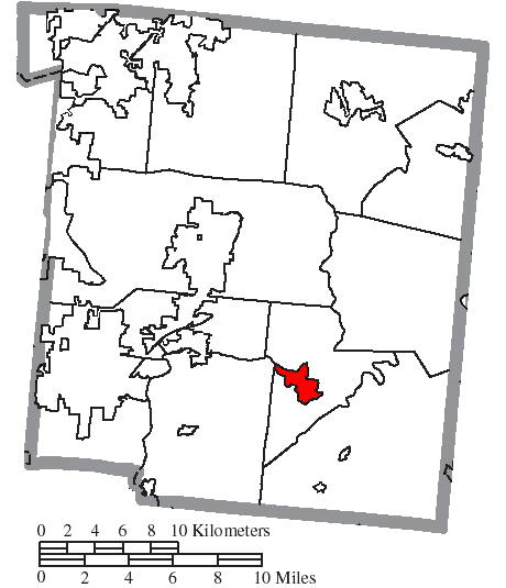 Map of the municipal and township boundaries of Warren County, Ohio, United States, as of the 2000 census, with the location of the village of Morrow highlighted. Township borders are shown only in unincorporated areas in order to differentiate incorporated and unincorporated areas more clearly.